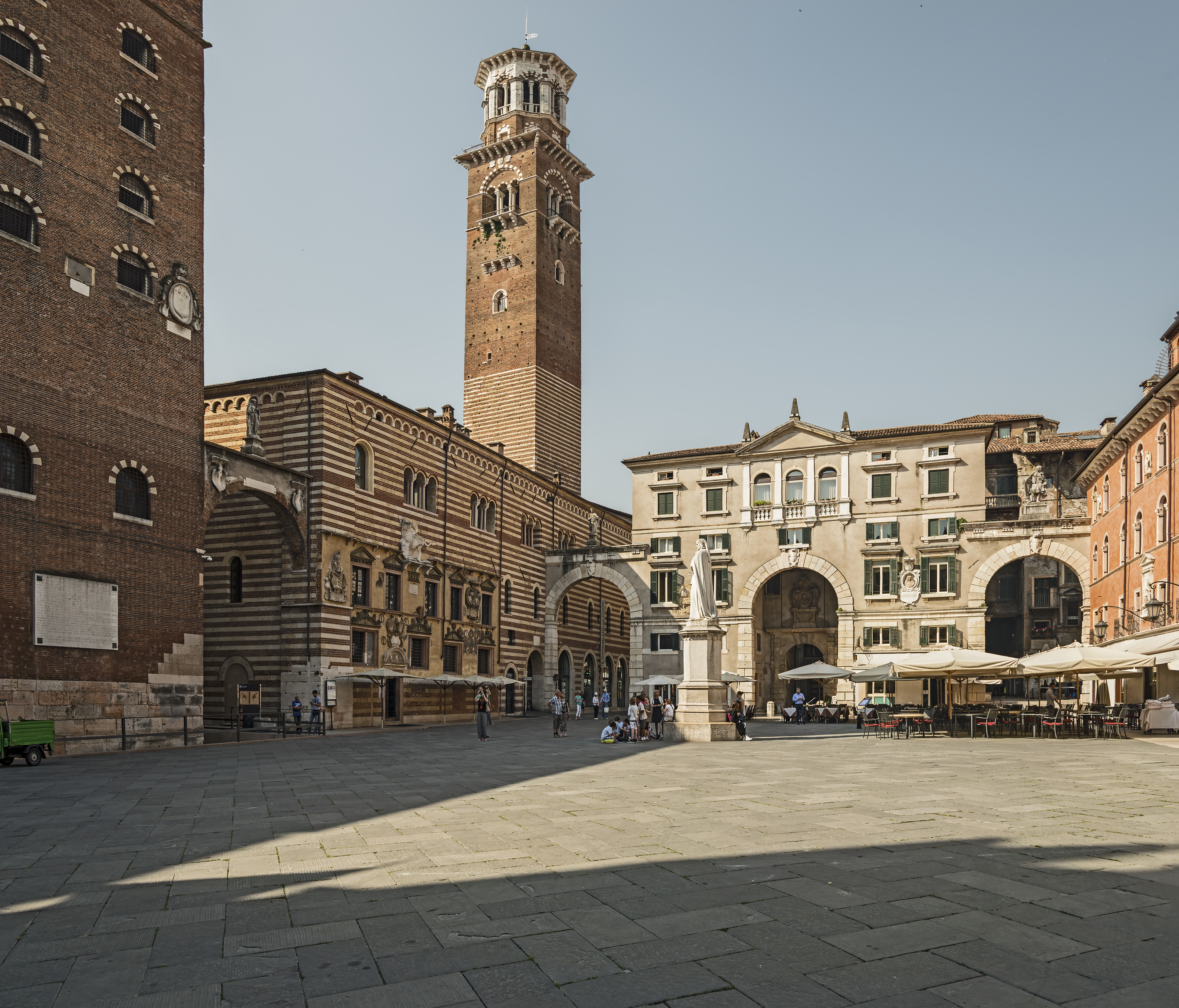 Piazza dei Signori with the facade of the Palazzo Domus Nova and Palazzo del Comune in Verona.